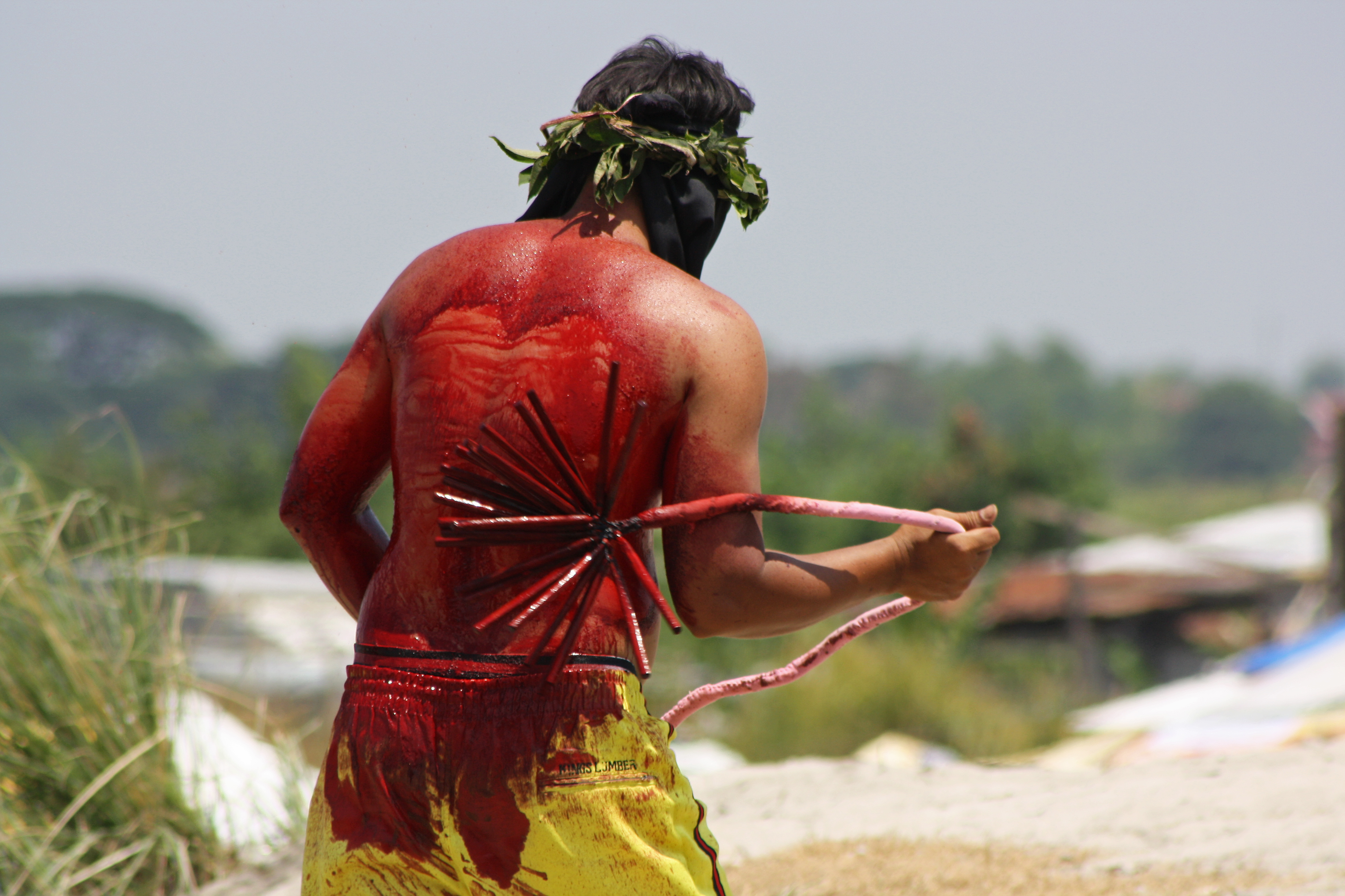 Good Friday observance in Barangay (barrio) San Pedro Cutud, in San Fernando, Pampanga, Philippines. During this annual tradition of faith of Kapampangan Catholic Devotees people remember the suffering and crucifixion of Jesus Christ. Although the modern Catholic church now discourages this act of hurting themselves, many penitents called "magdarame" carry wooden crosses, crawl on rough pavement, and slash their backs before whipping themselves to draw blood (pictured). This is done to ask for forgiveness of sins, to fulfill vows (panata), or to express gratitude for favors granted.